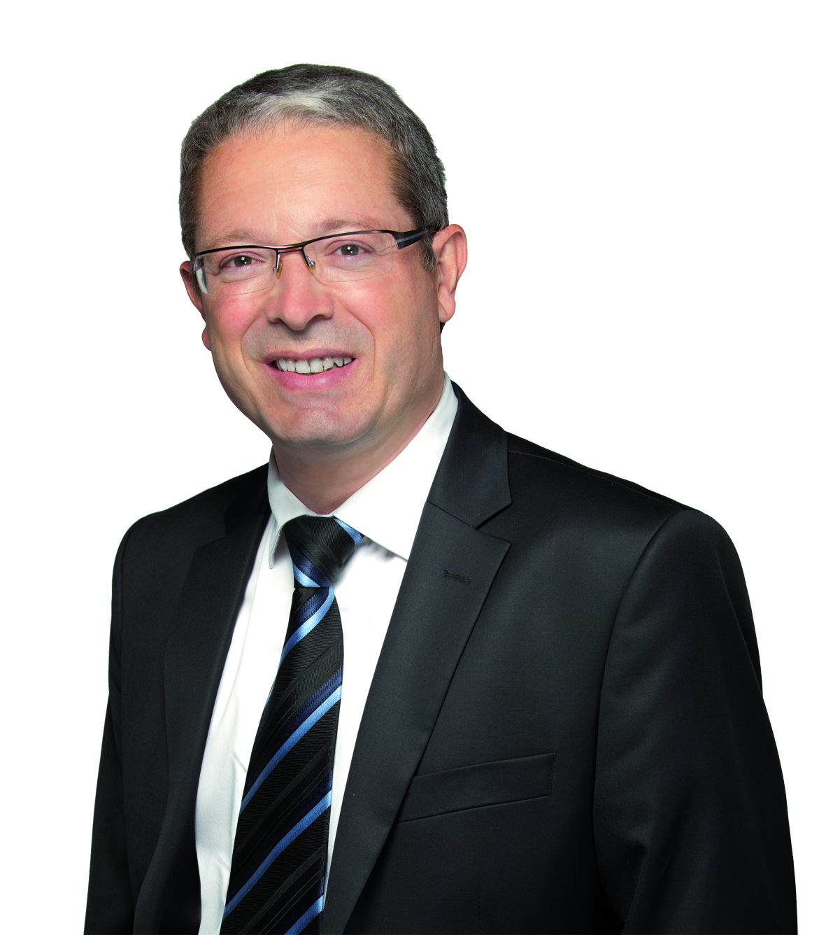 Portrait Didier Gonzales